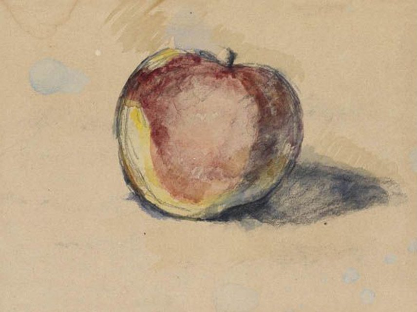 Paul Cézanne’s Étude de Pomme, watercolor and pencil, likely from a sketchbook, circa 1890